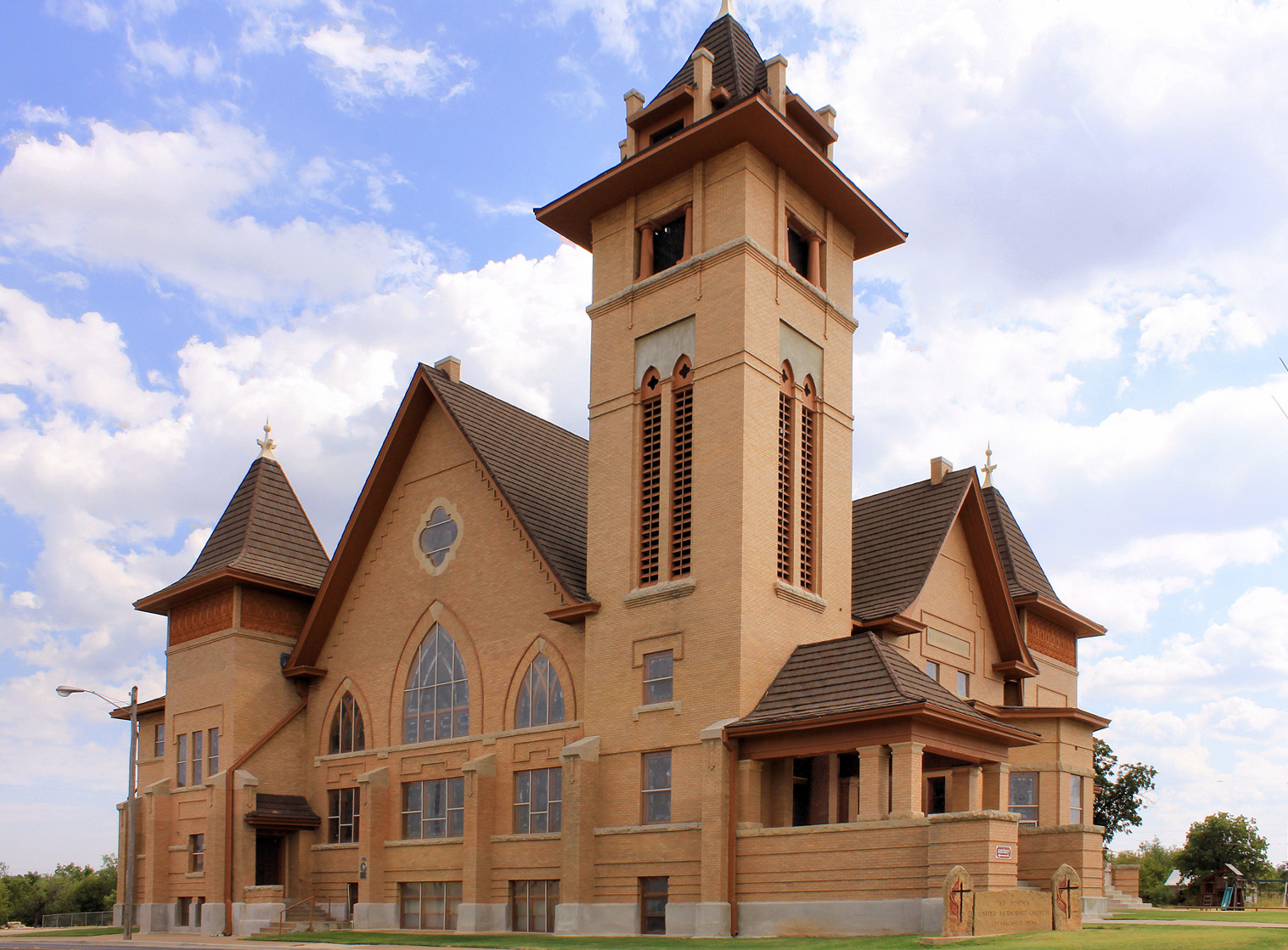 St. John's Methodist Church in Stamford, Texas, United States. The church was built in 1910 and listed on the National Register of Historic Places on September 24, 1986.